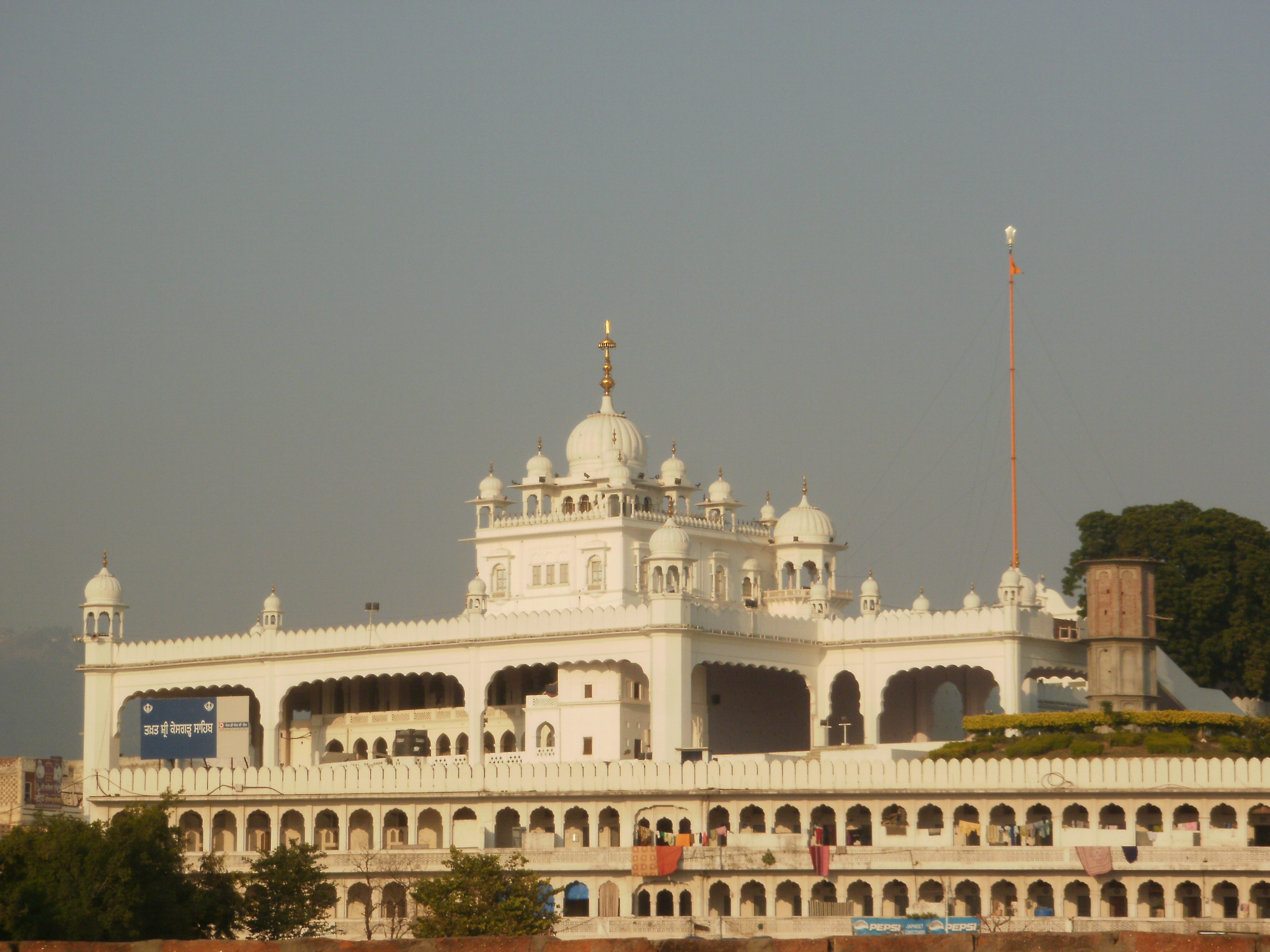 Takht Sri Kesgarh Sahib